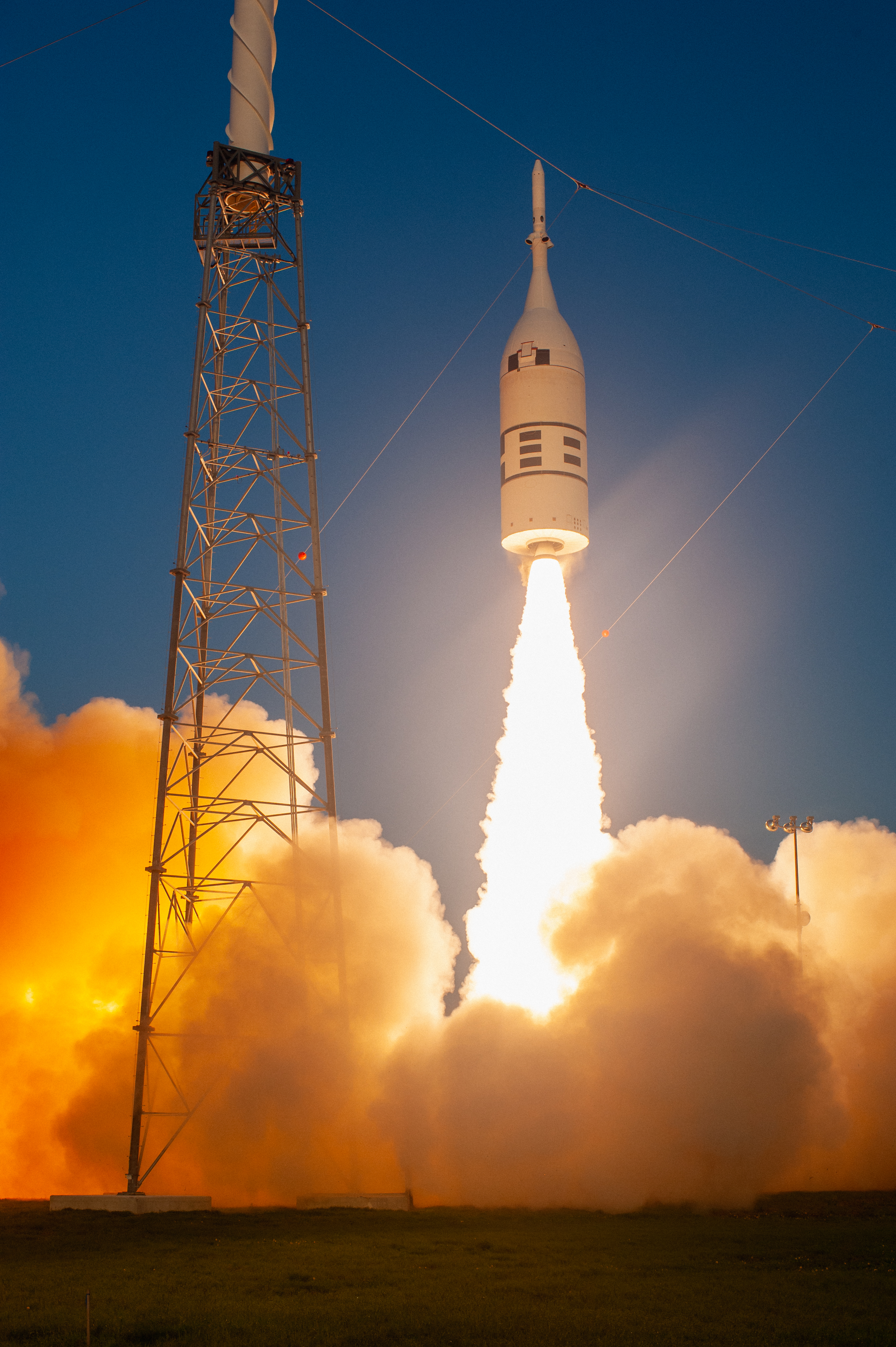 A fully functional Launch Abort System (LAS) with a test version of Orion attached, launches on NASA’s Ascent Abort-2 (AA-2) atop a Northrop Grumman provided booster on July 2, 2019, at 7 a.m. EDT, from Launch Pad 46 at Cape Canaveral Air Force Station in Florida. During AA-2, the booster will send the LAS and Orion to an altitude of 31,000 feet, traveling at Mach 1.15 (more than 1,000 mph). The LAS’ three motors will work together to pull the crew module away from the booster and prepare it for splashdown in the Atlantic Ocean. The flight test will prove that the abort system can pull crew to safety in the unlikely event of an emergency during ascent.